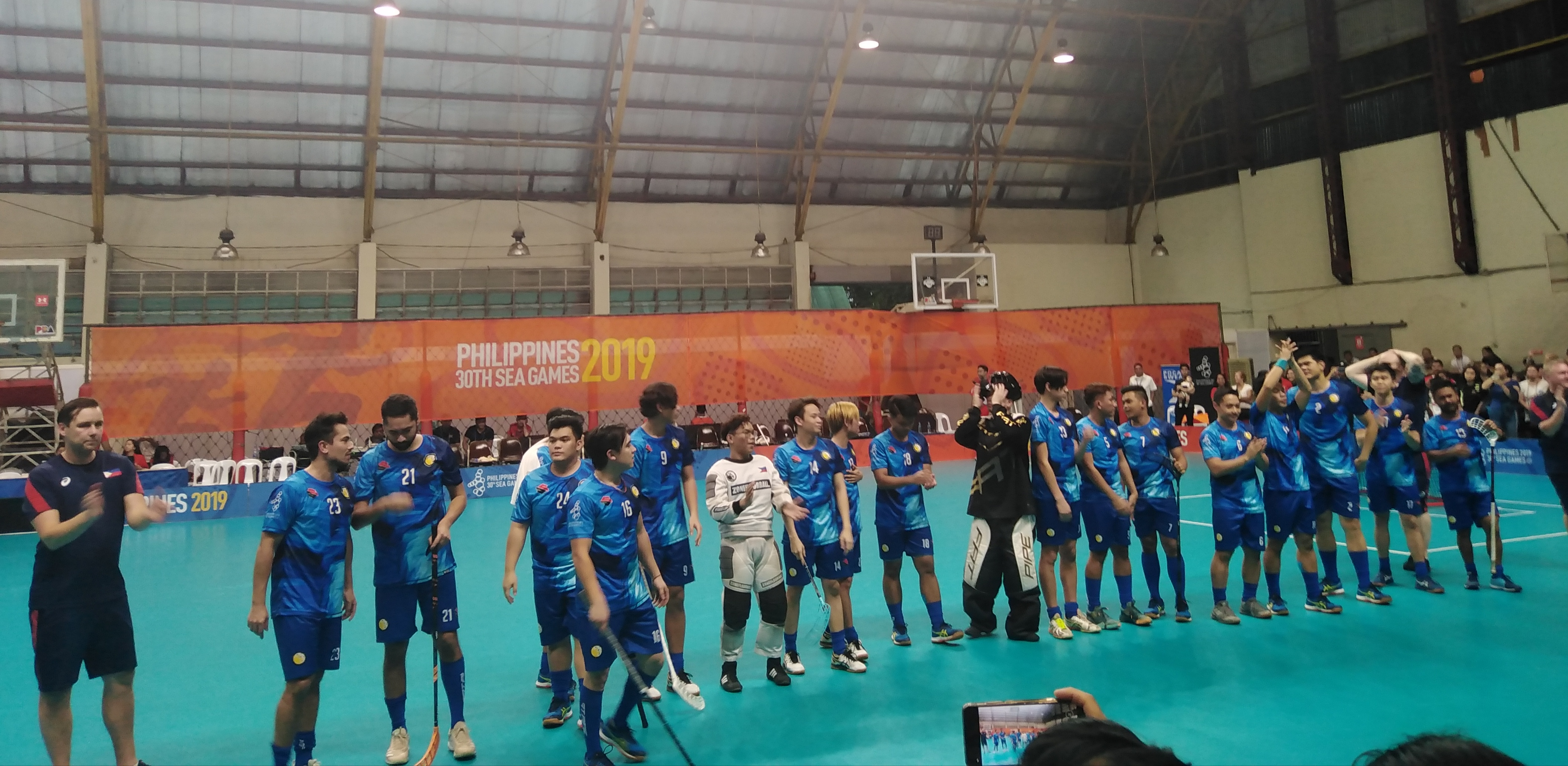 The Philippine men's national floorball team posing for a photo before the audience after their 4-7 defeat to Malaysia in the bronze medal game of the men's floorball event of the 2019 Southeast Asian Games which was held at the UP College of Human Kinetics Gymnasium in Quezon City.